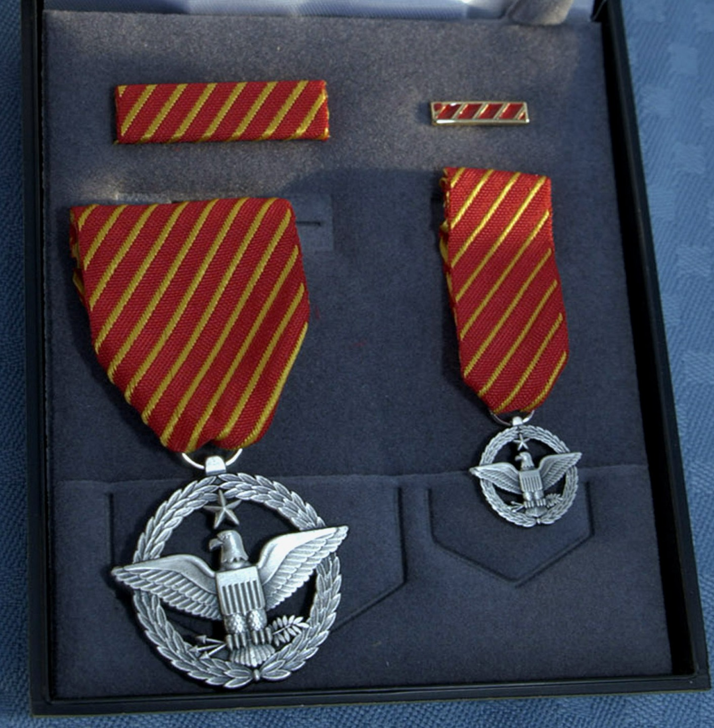 Set in case of the Air Force Combat Action Medal of the United States Air Force